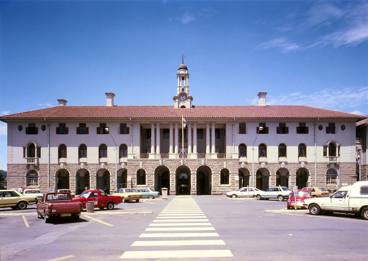 Pretoria railway station, South Africa